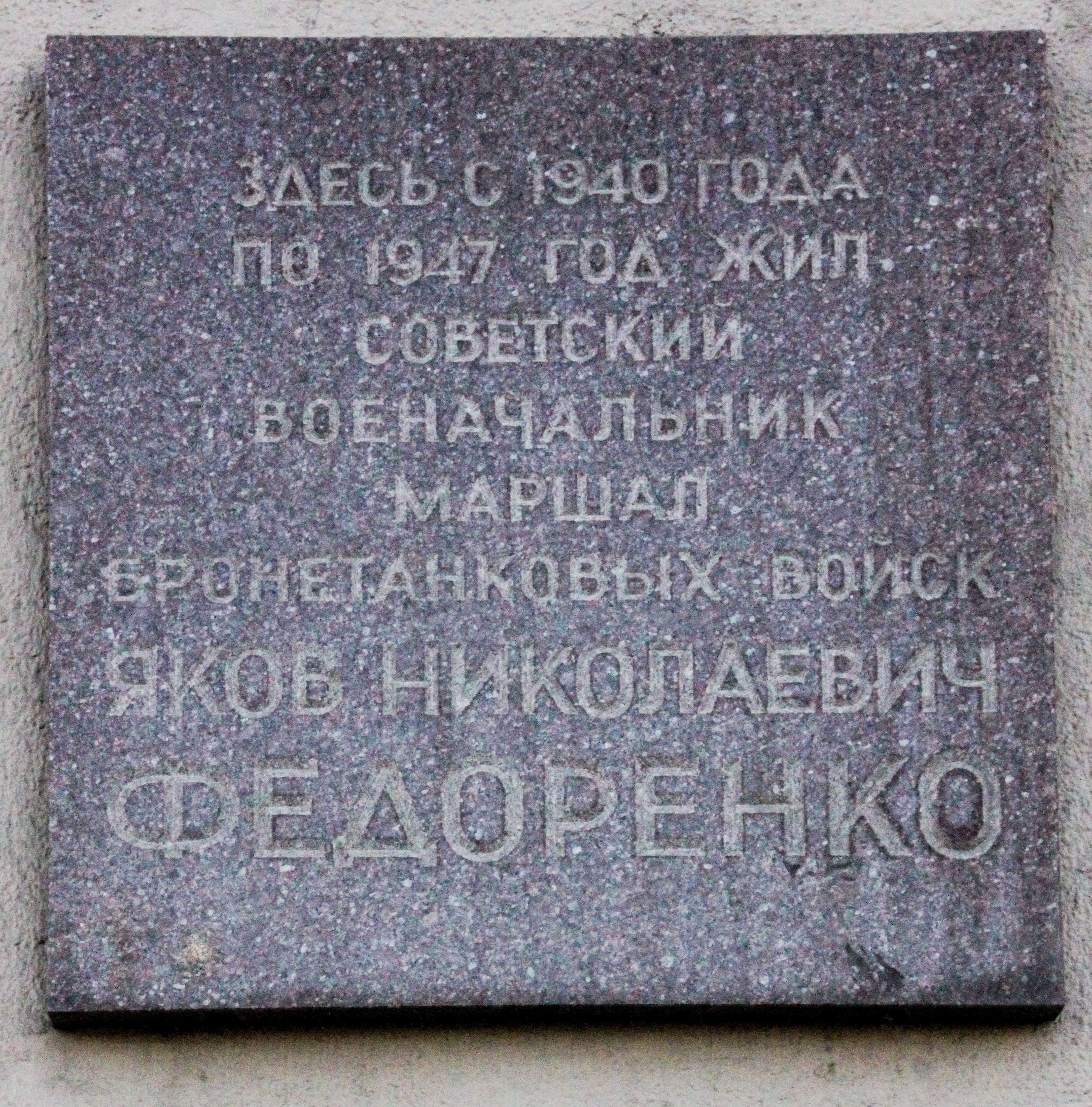 Here from 1940 to 1947 lived a Soviet commanding officer, general of mechanized forces Yakov Nikolayevich Fedorenko.